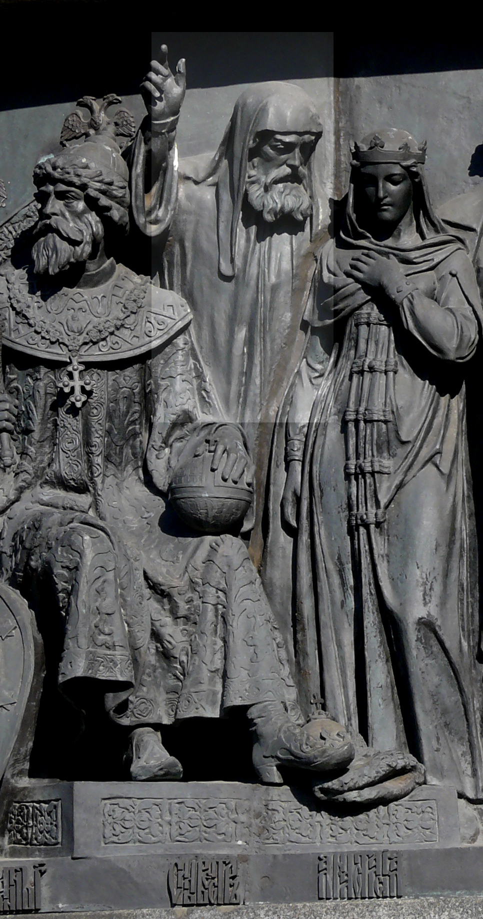 Priest Silvestr on the Monument "Millennuim of Russia" in Veliky Novgorod